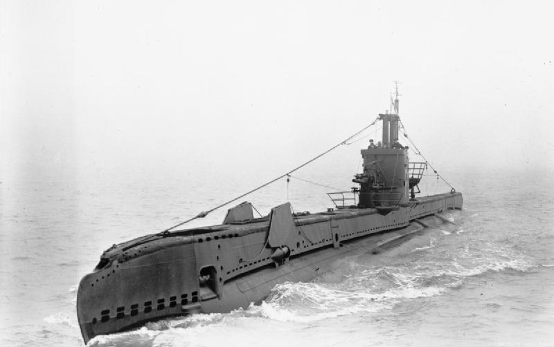 British S class submarine HMSM SIMOOM underway.